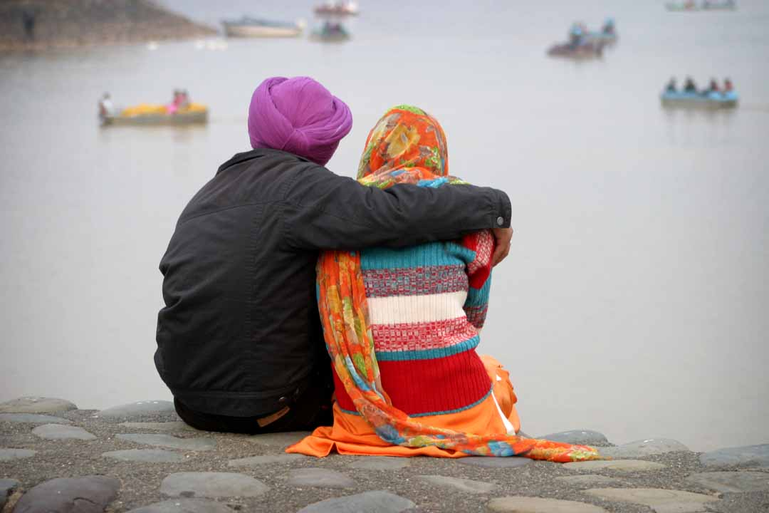 Love is in the air...